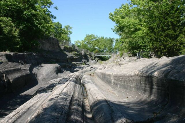 Glacial Grooves State Park, Kelley's Island, Ohio